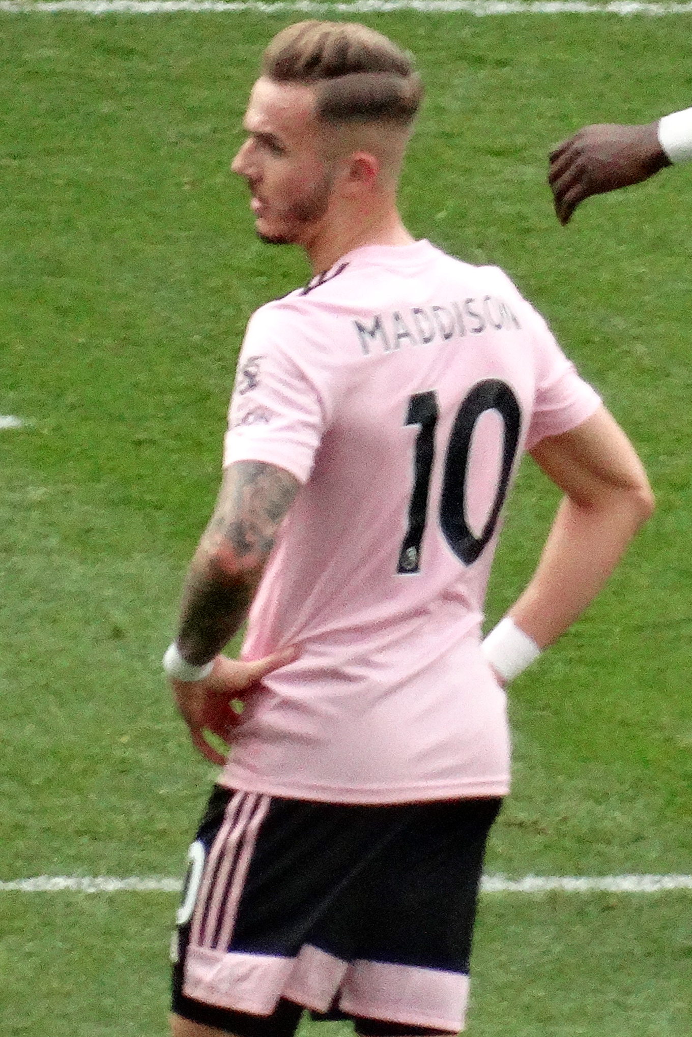 James Maddison of Leicester City